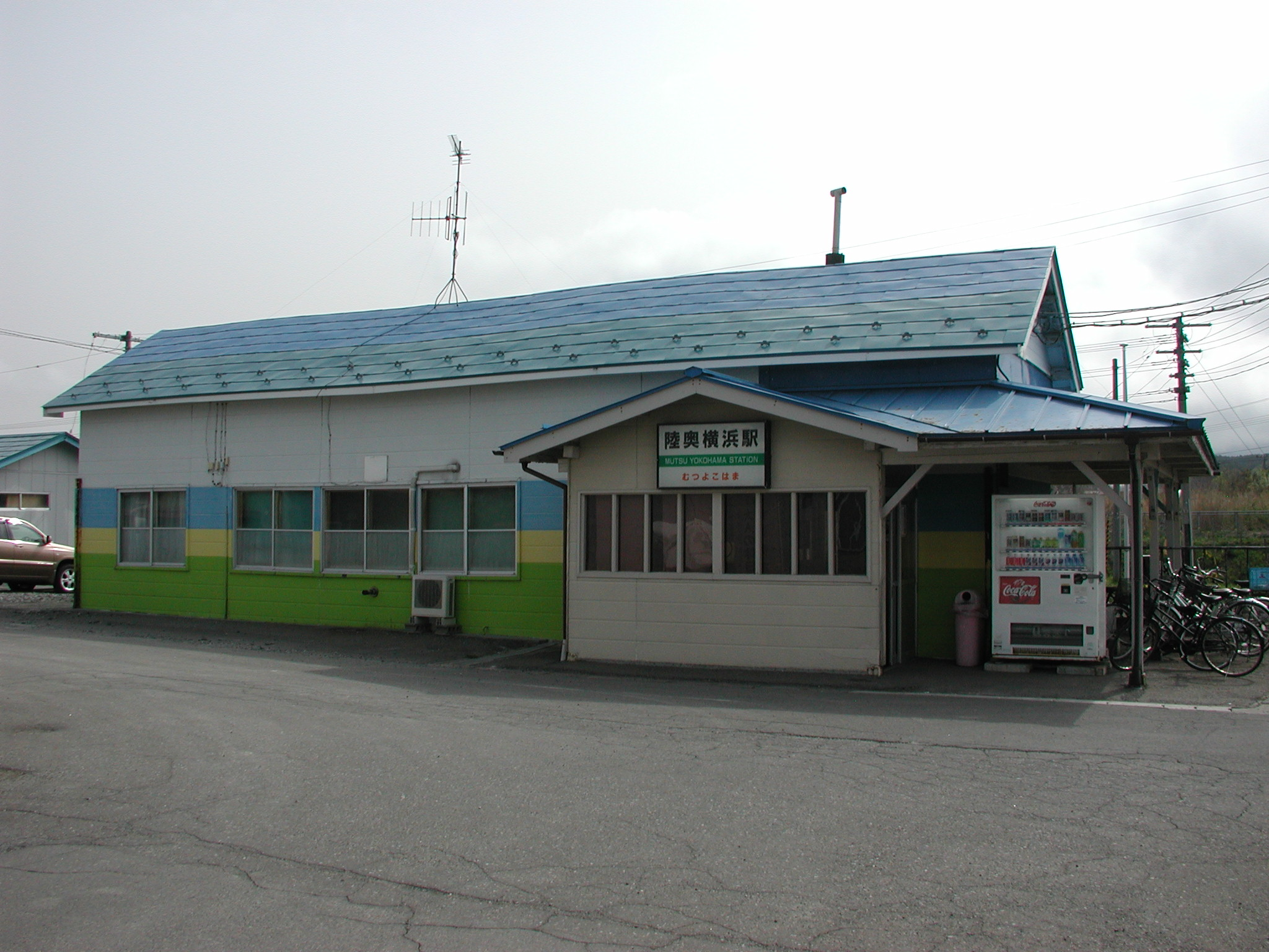 Mutsu-Yokohama Station